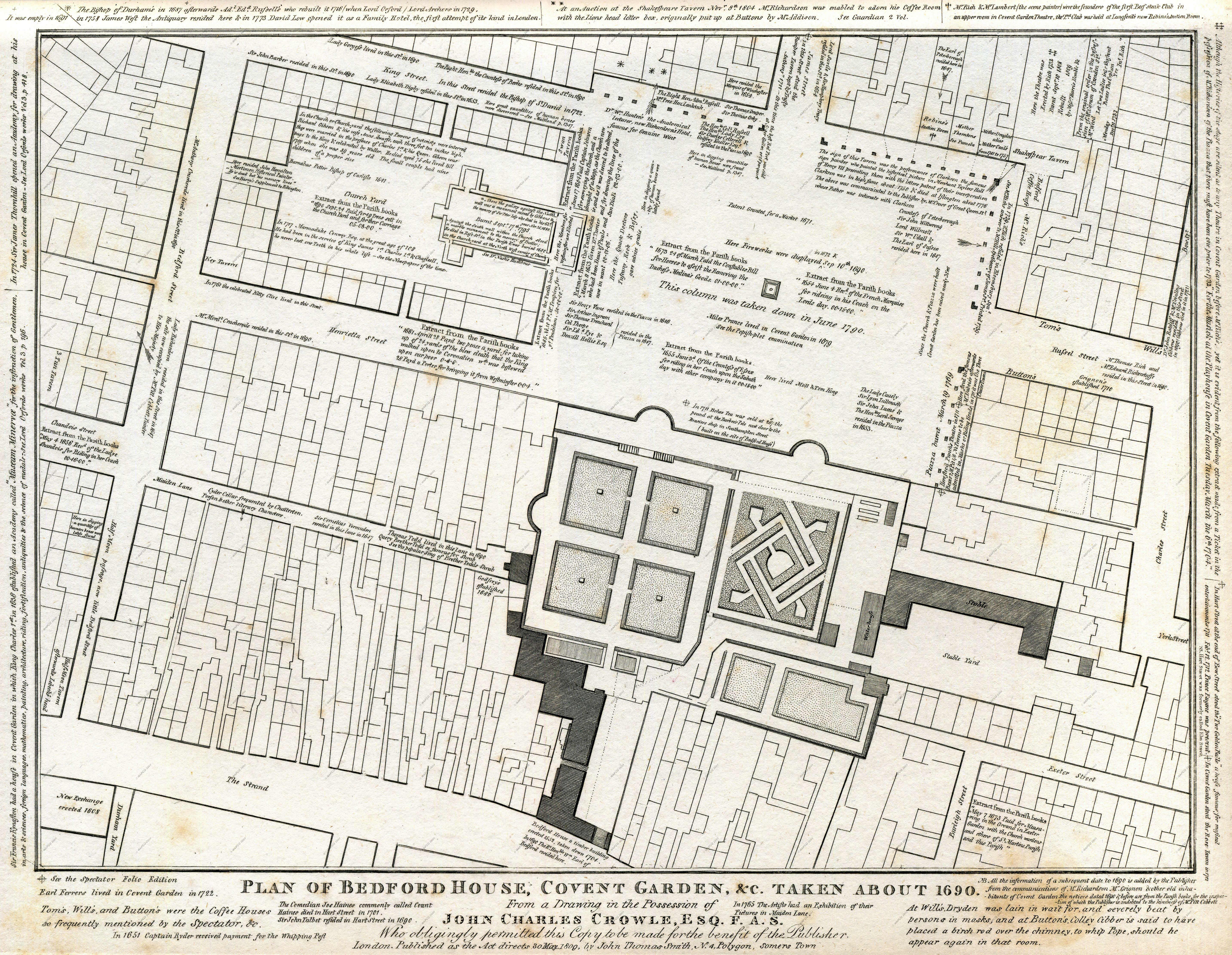 Plan of Bedford House and garden in Covent Garden drawn around 1690, with subsequent annotations.